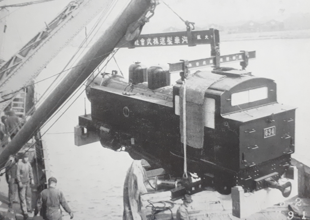 Class 630 steam locomotive of the Chosen Railway number 634, being loaded onto a ship for delivery from Japan to Korea.